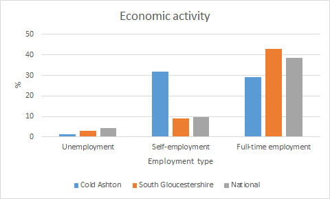 Economic activity comparison of Cold Ashton, South Gloucestershire and nation-wide by ONS, 2011